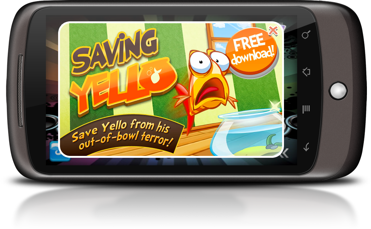 Provided by Justin Mauldin, director of marketing at PapayaMobile